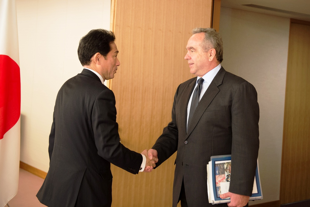 Assistant Secretary of State for East Asian and Pacific Affairs Kurt M. Campbell is greeted by Japanese Foreign Minister Fumio Kishida before their meeting at the Ministry of Foreign Affairs in Tokyo, Japan, January 17, 2013. [State Department photo by William Ng/ Public Domain]